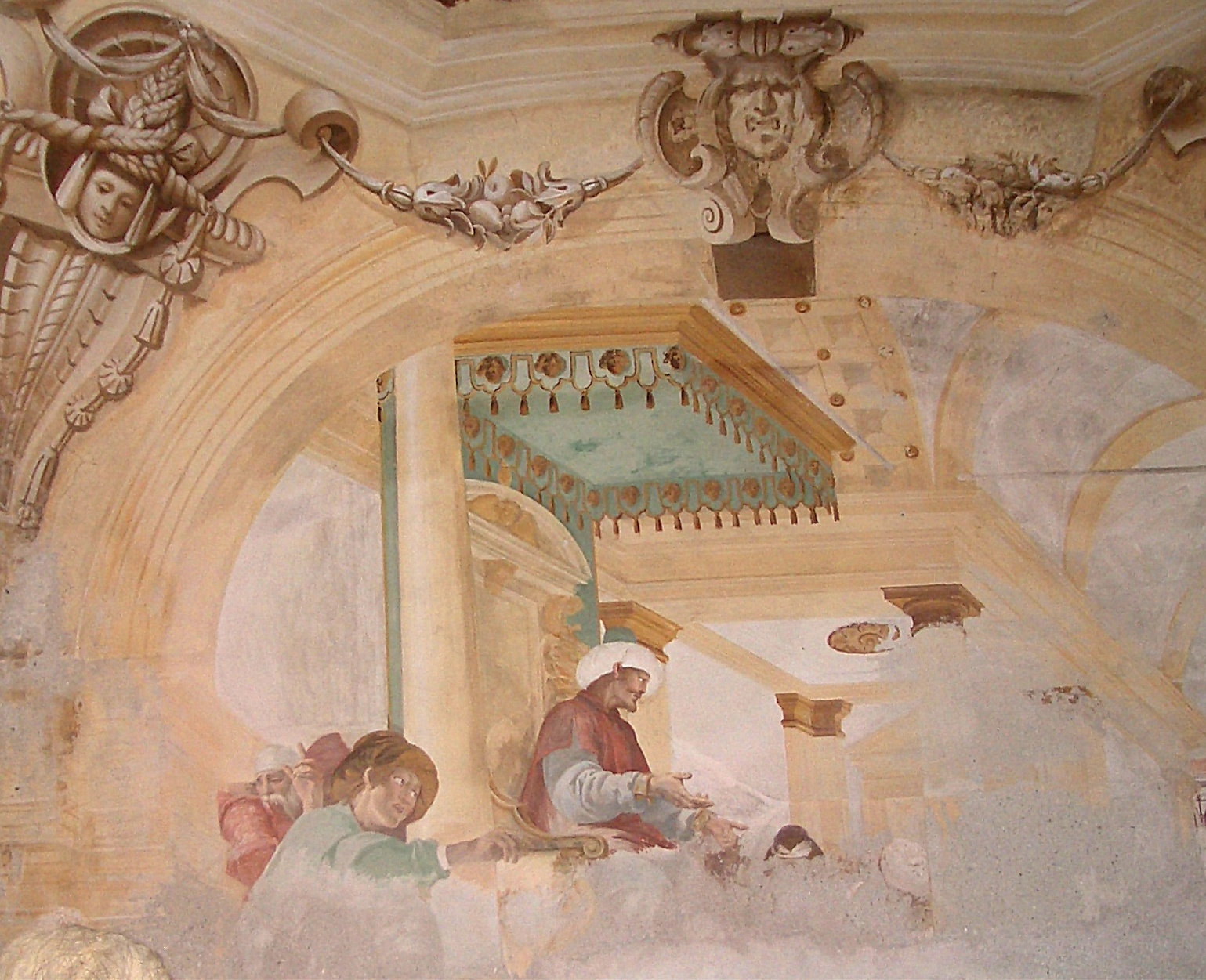 Sacro Monte di Varallo, frescoes of the chapel XXX, The Scourging), the painter was Cristoforo Martinolio detto il Rocca, (ca. 1599- ca. 1664)